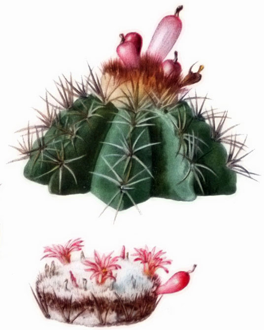 Melocactus harlowii